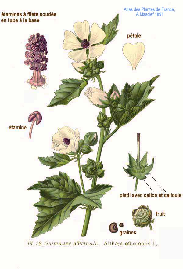 Althaea officinalis L.